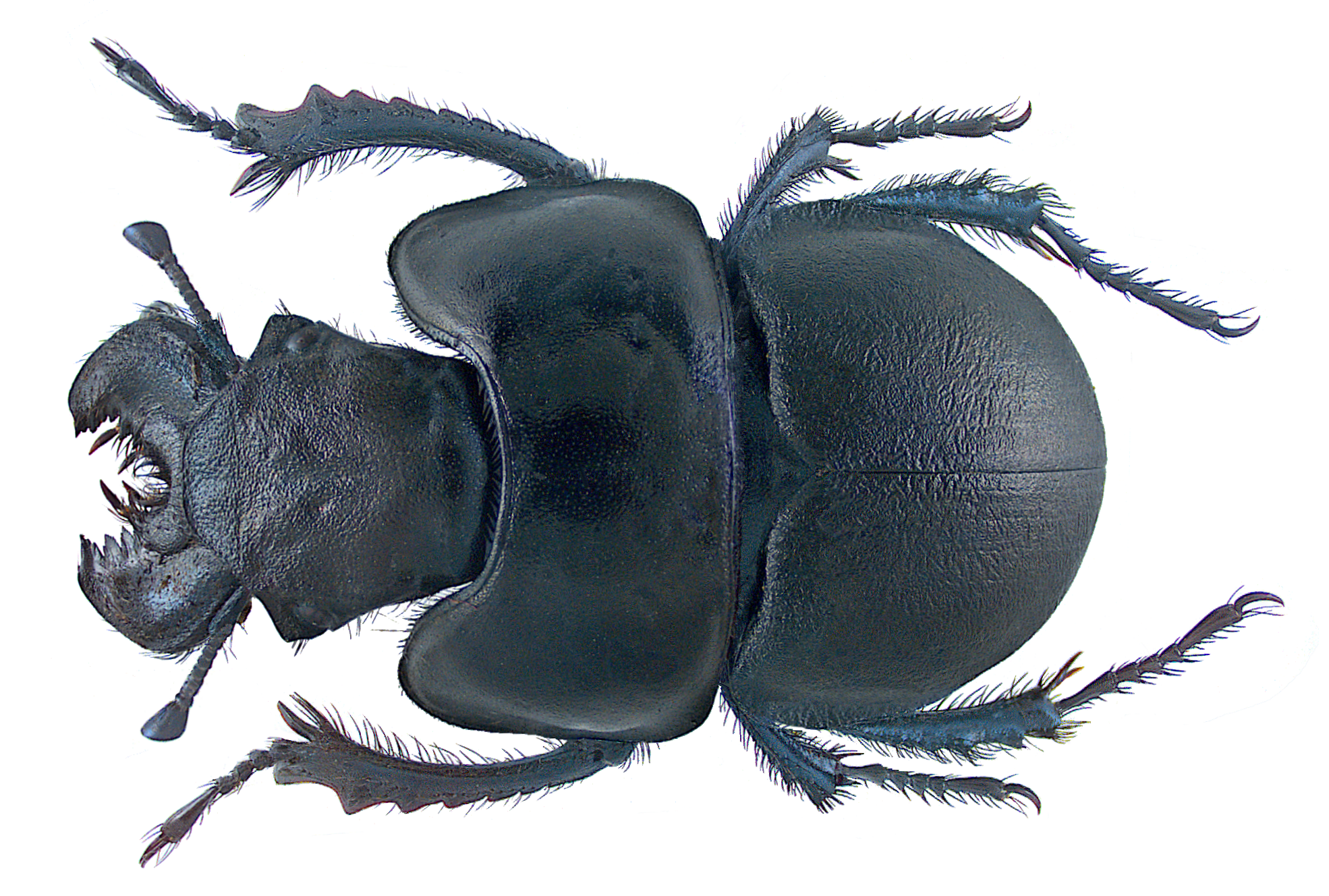 Family: Geotrupidae Size: 23,0 mm (15 to 24 mm) Origin: Pontic Pannonian, Europe, Russia Ecology: lives in sandy steppe areas, dig deep tunnels in the soil of untilled areas. At the end of the tunnel the female arranges side chambers in which she lays eggs. Then the beetle fill the chambers with young leaves, which serve as food for the larvae. Location: Russia Volgograd, Kamyshensky, Golubaja river valley, 150 m leg. E.Alexeer, 15.-19.IV.2000; det. U.Schmidt, 2015 Photo: U.Schmidt, 2016